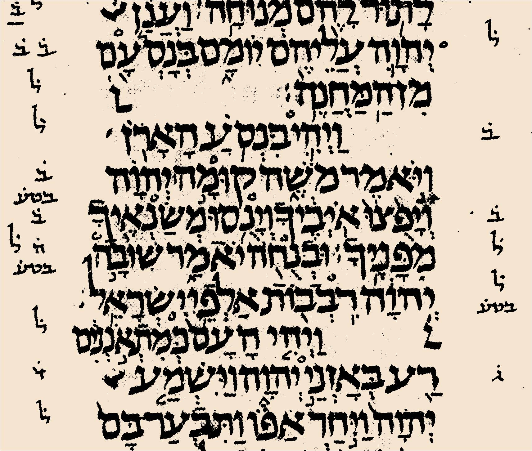 Inverted nun (2) in Leningrad Codex, (Numry. 10, 35-36)